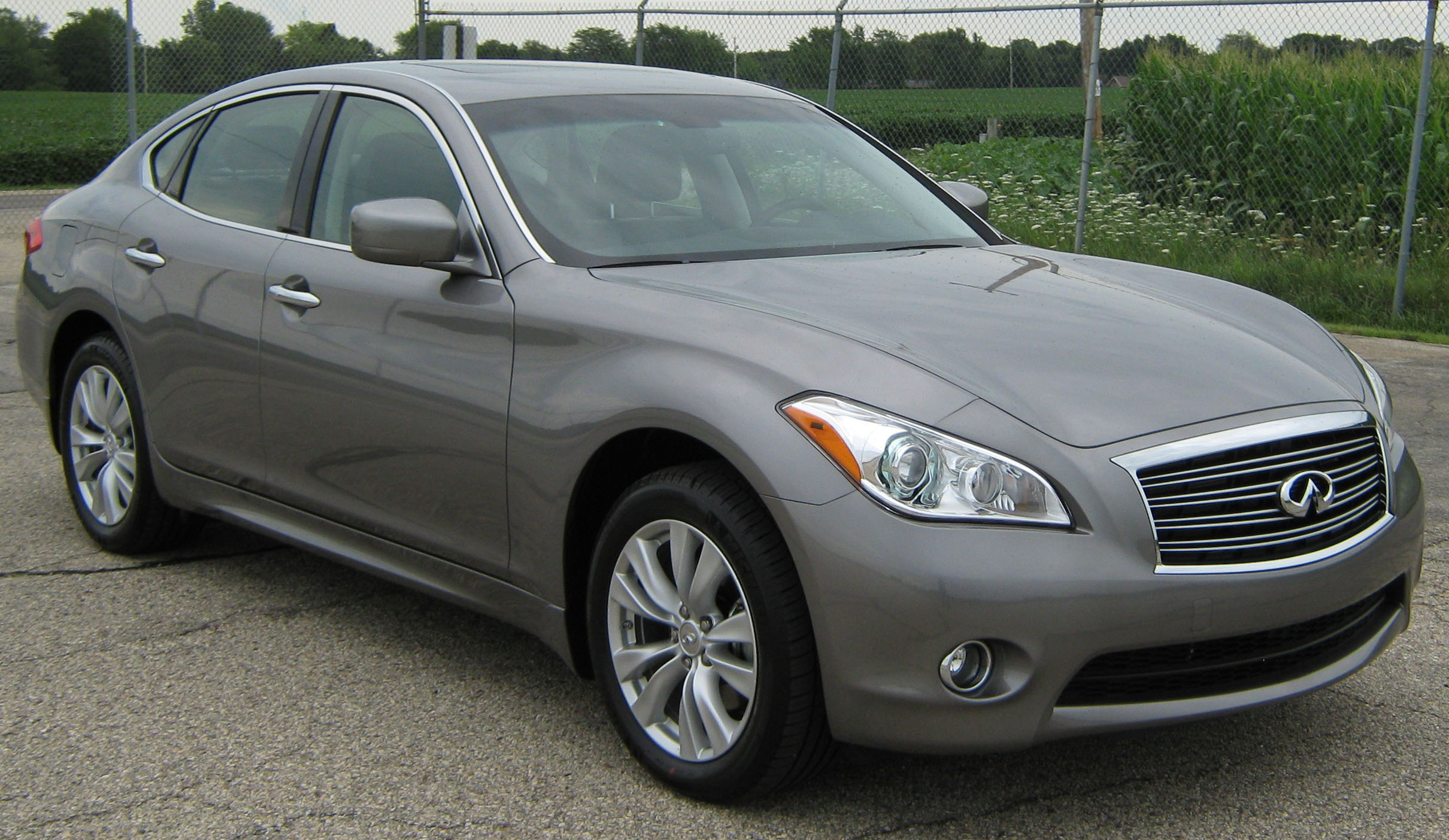 2011 Infiniti M37 photographed in USA.